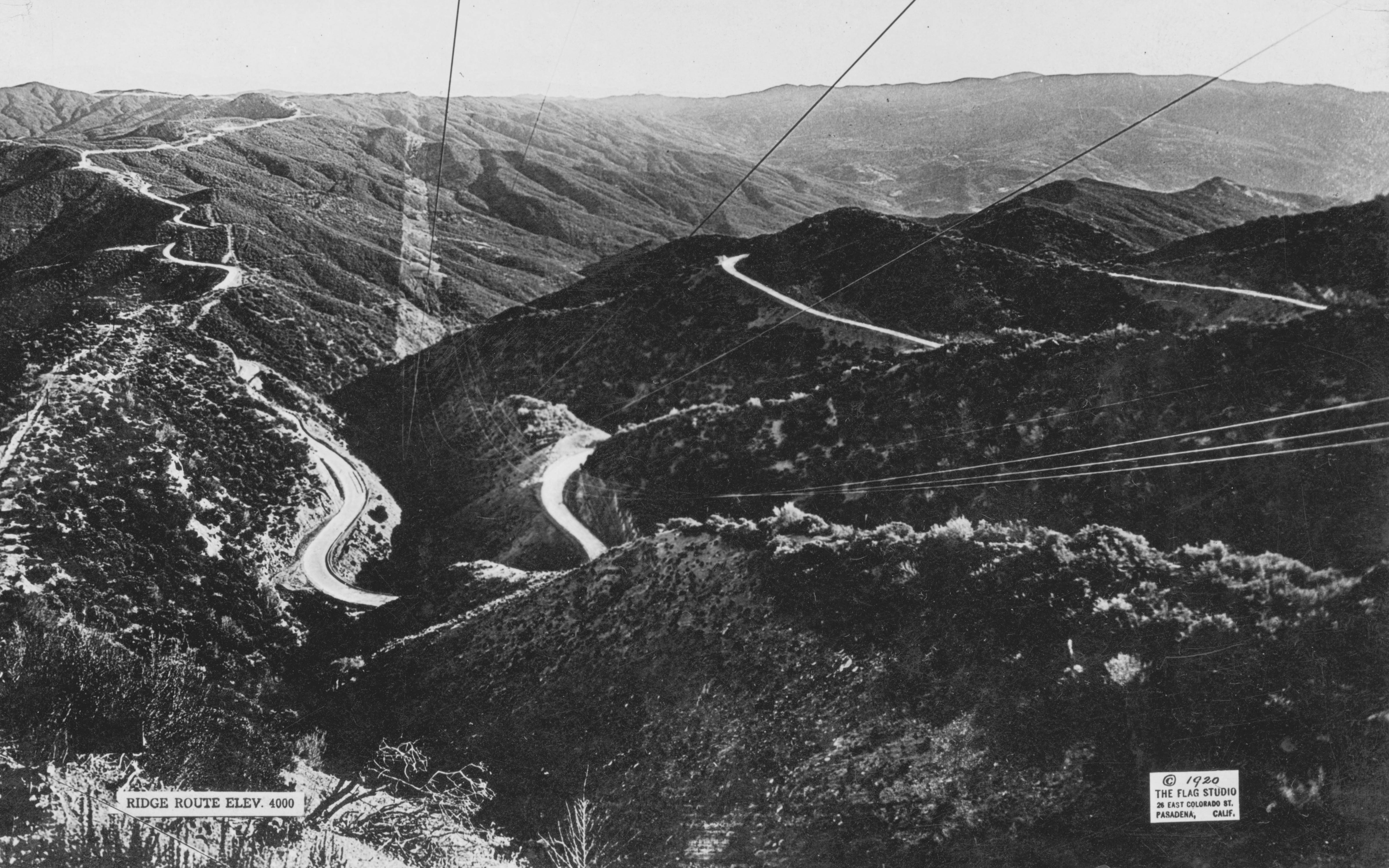 Photograph of a view of the Ridge Route, circa 1920. A roadway can be seen winding around the sides and tops of mountains that are visible throughout. Shrubs can be seen on the mountains, while telephone lines can be seen running from the foreground down towards a lower portion of the mountains. The mountains continue into the distance. Photoprint reads: "Elevation 4000".